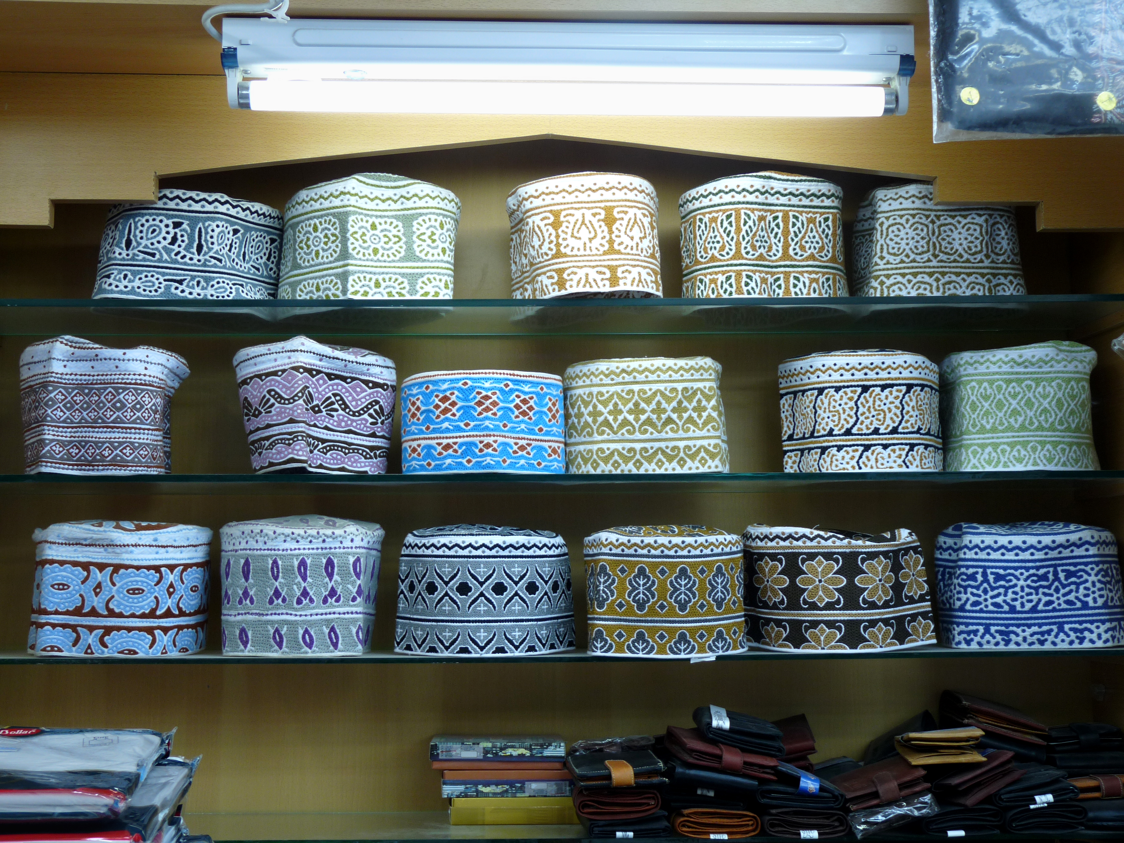 Craft market in Nizwa (Oman)